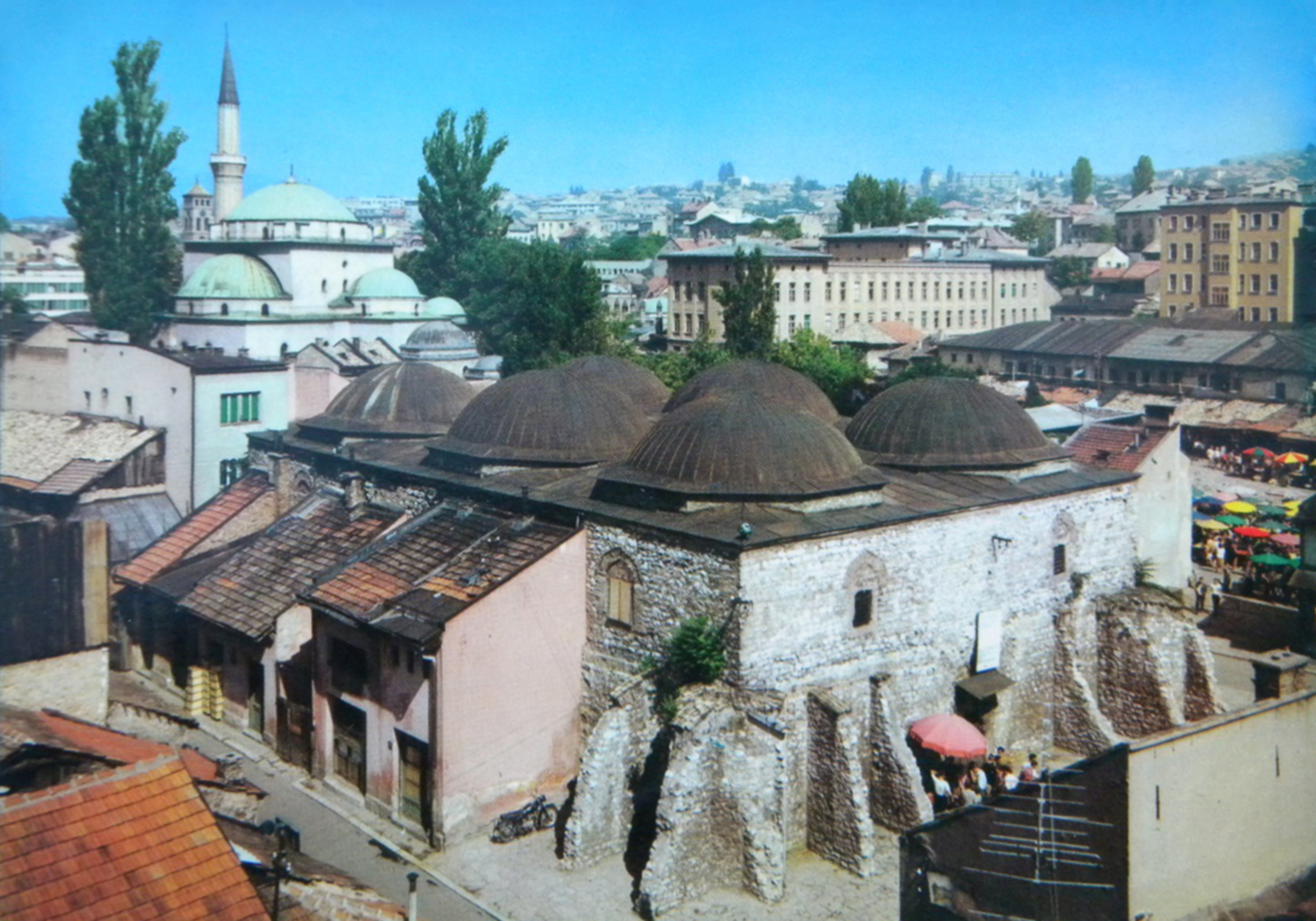 Brusa Bezistan in Sarajevo